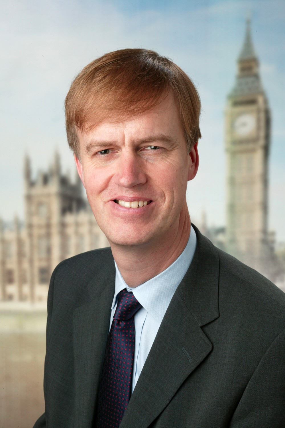 Photo owned by Stephen Timms and published by him under the GNU Free Documentation License. A copy of his permission has been sent to the OTRS system.